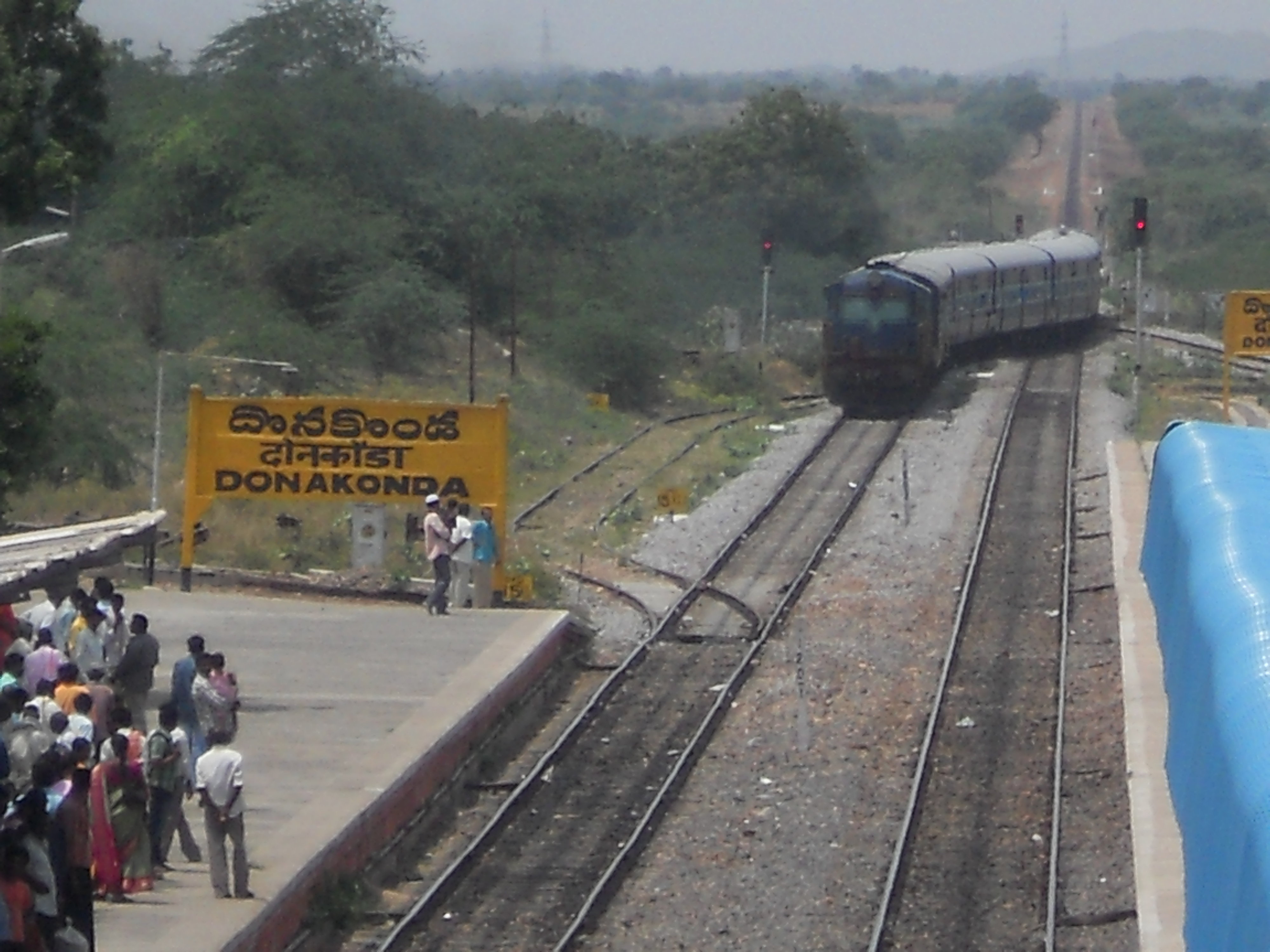 Train Approaching DKD